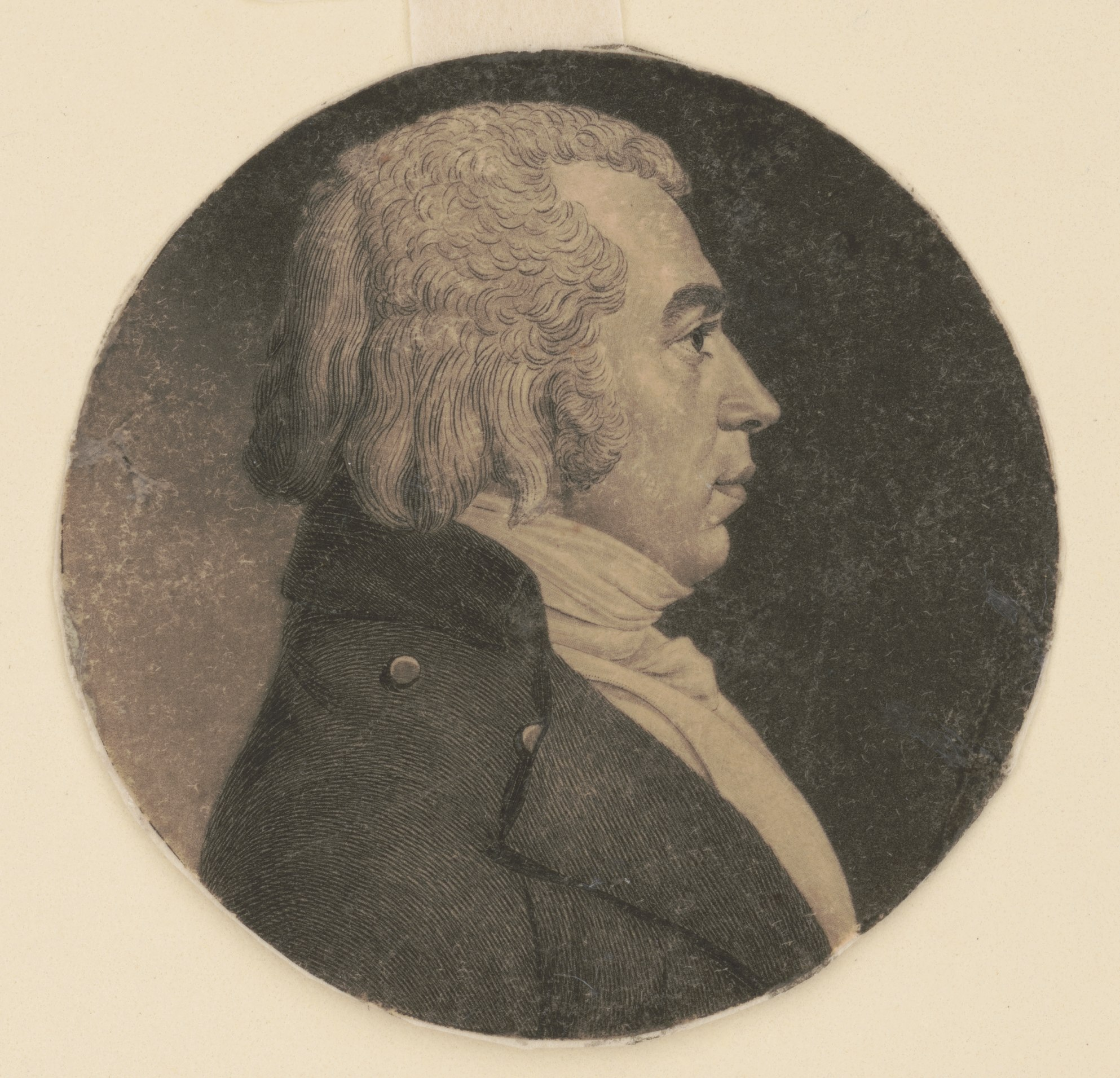 Title: Joseph Clay, head-and-shoulders portrait, right profile Abstract/medium: 1 print : engraving.